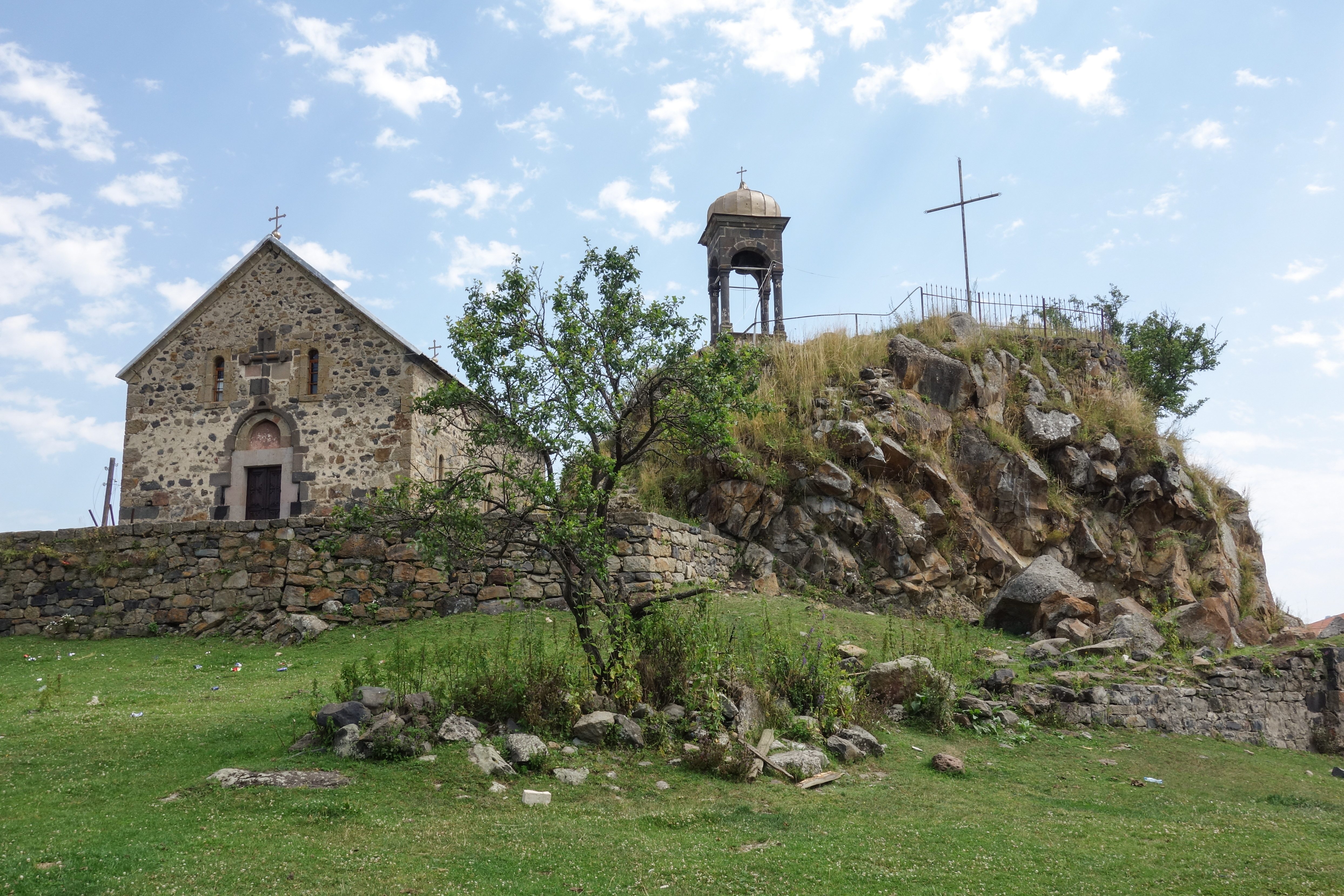 Tsikhisjvari Church, Samtskhe-Javakheti, Georgia